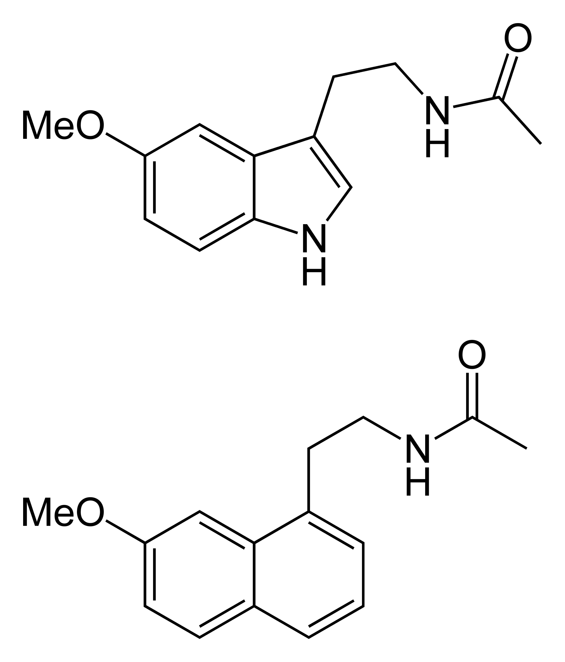 Structural formulae of melatonin (top) and agomelatine (bottom). Structures drawn in ChemBioDraw Ultra 12.0.